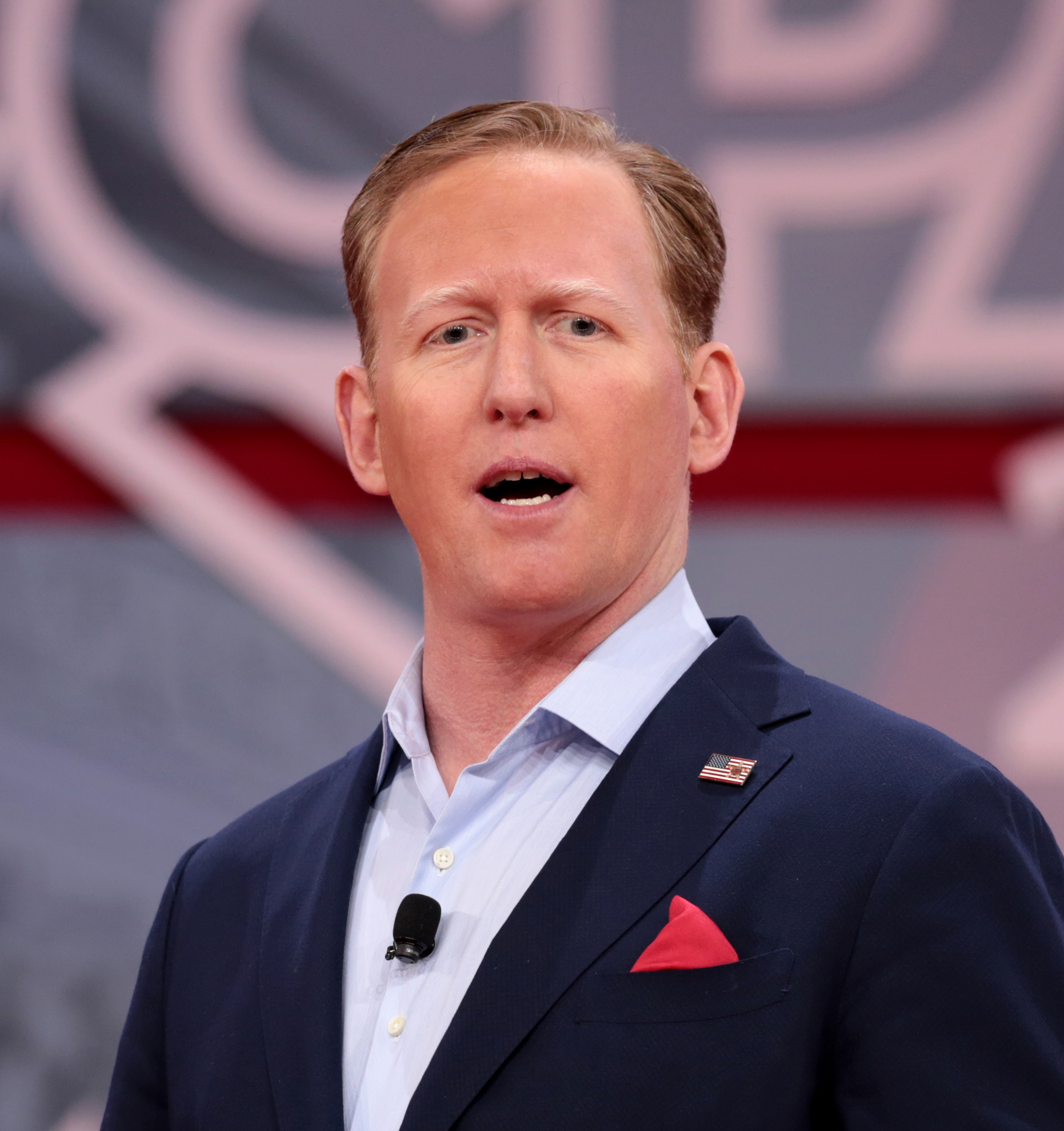 Former Seal Team Six Navy Seal Rob O'Neill speaking at the 2018 Conservative Political Action Conference (CPAC) in National Harbor, Maryland.